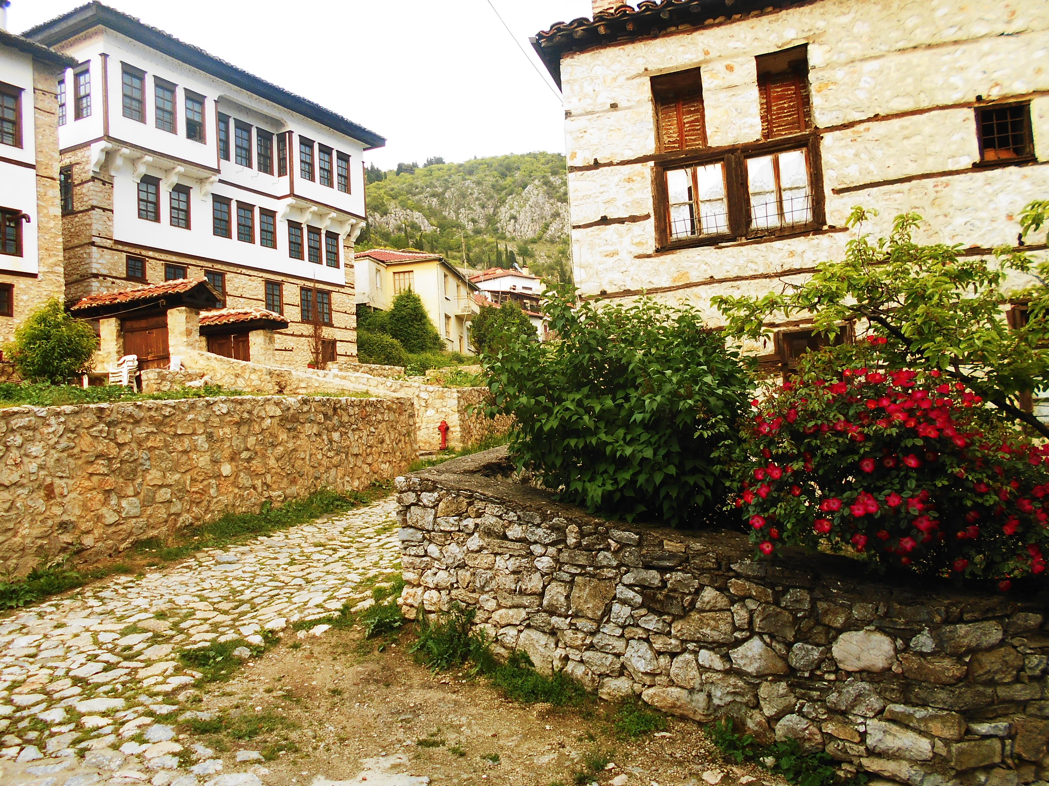 This is a photography of Natura 2000 protected area with ID Kastoria